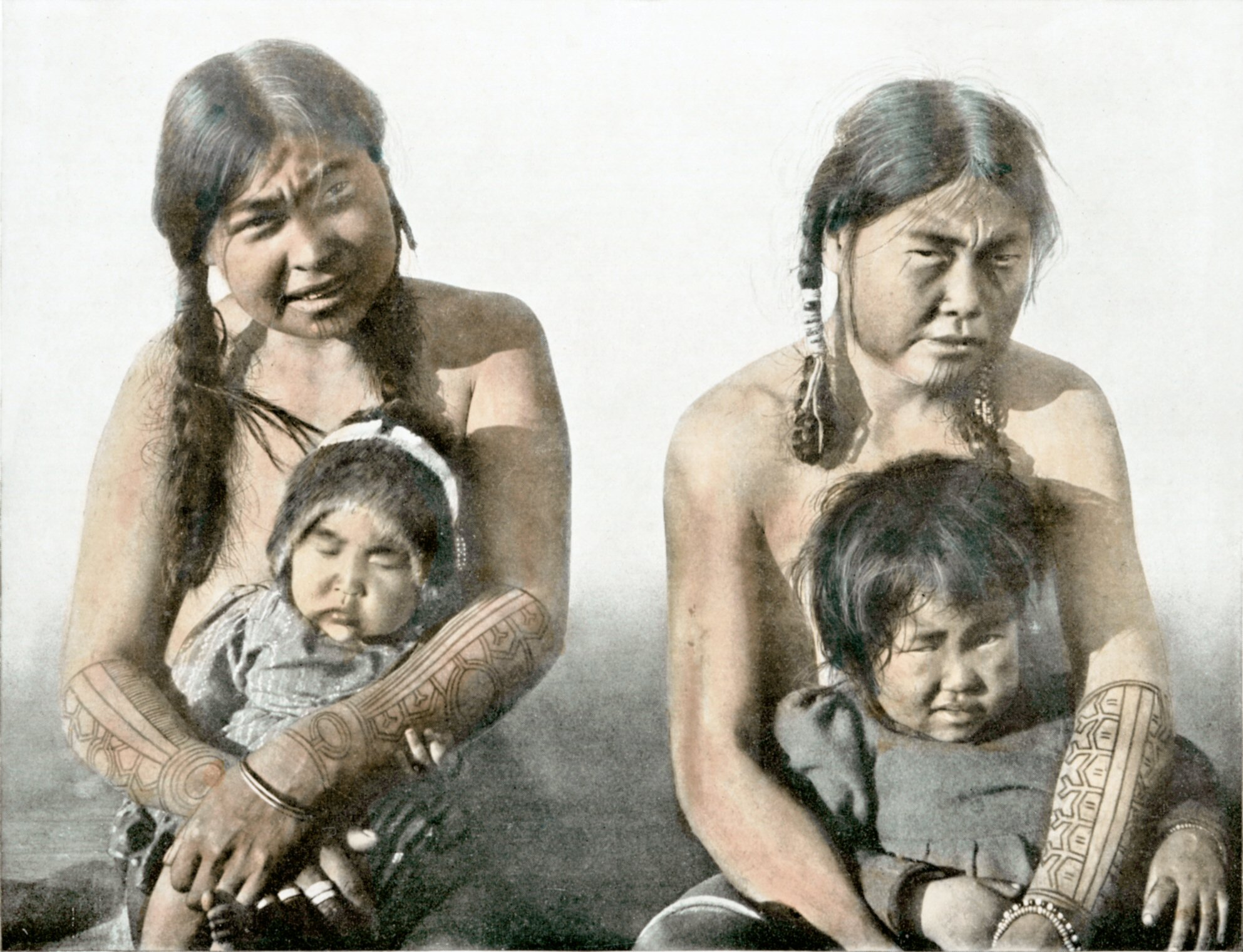 Eskimo women by their kids from King's Island, Alaska. The arms show beautiful tattoos.